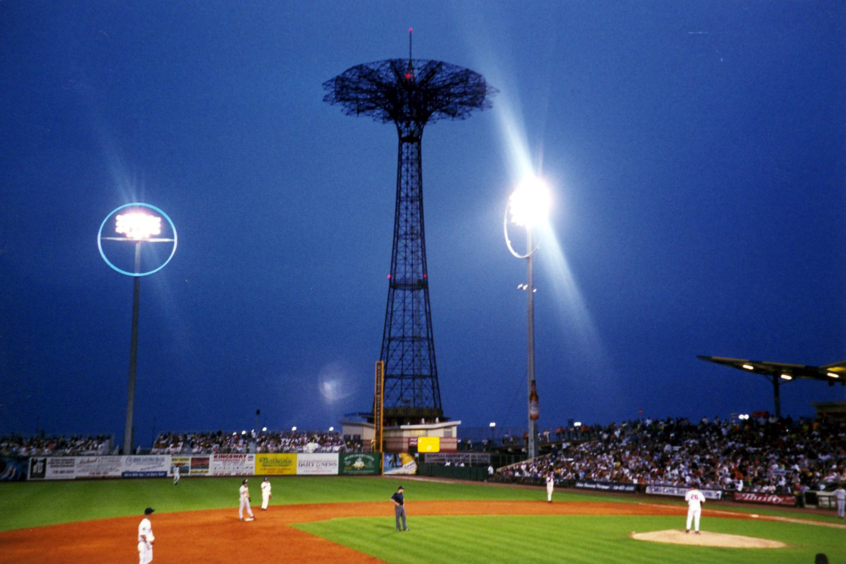 KeySpan Park minor league baseball stadium, Coney Island, New York. The famous Parachute Jump is in the background.